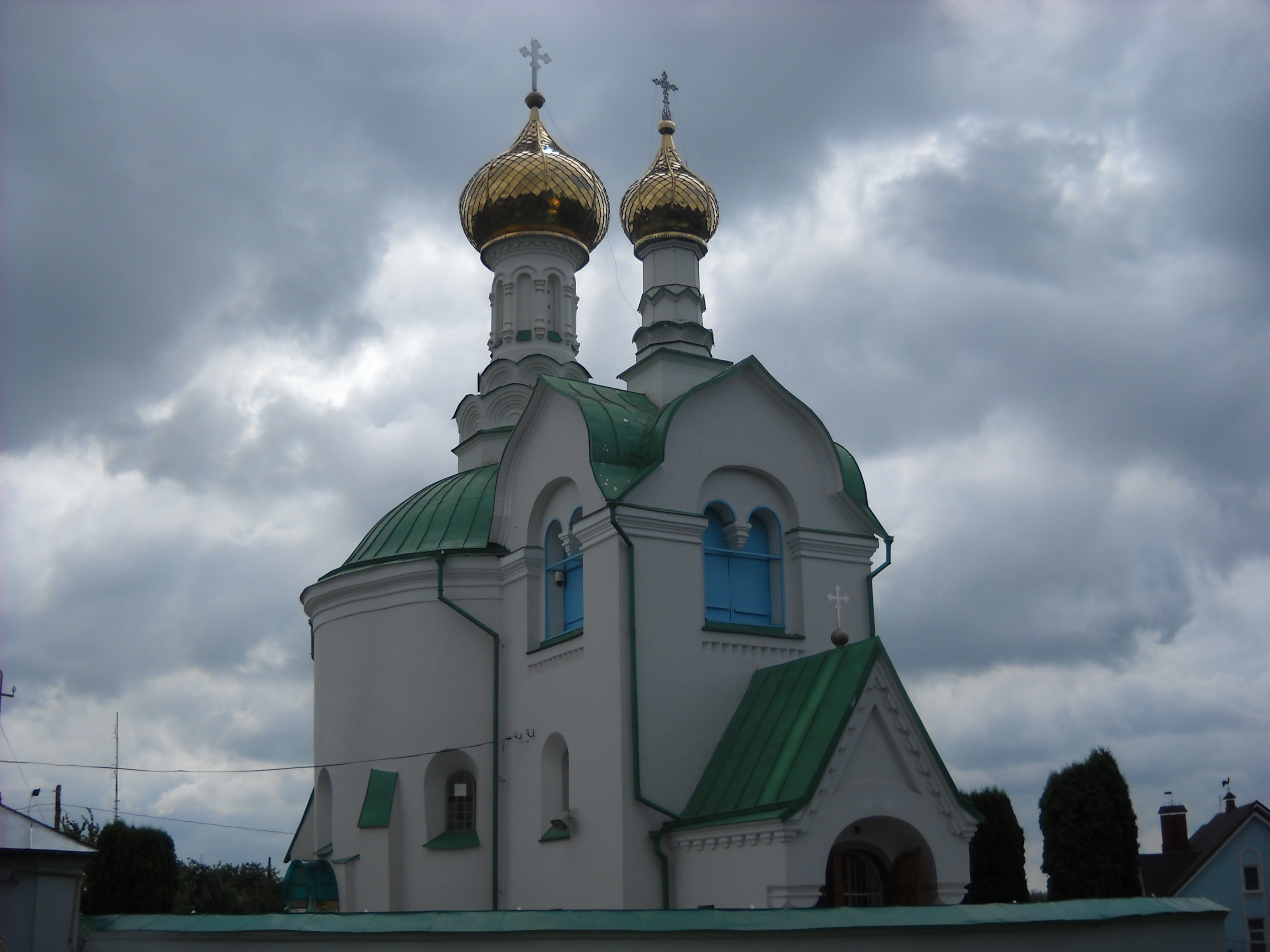 Church of St. Basil the Great in Volodymyr Volynski